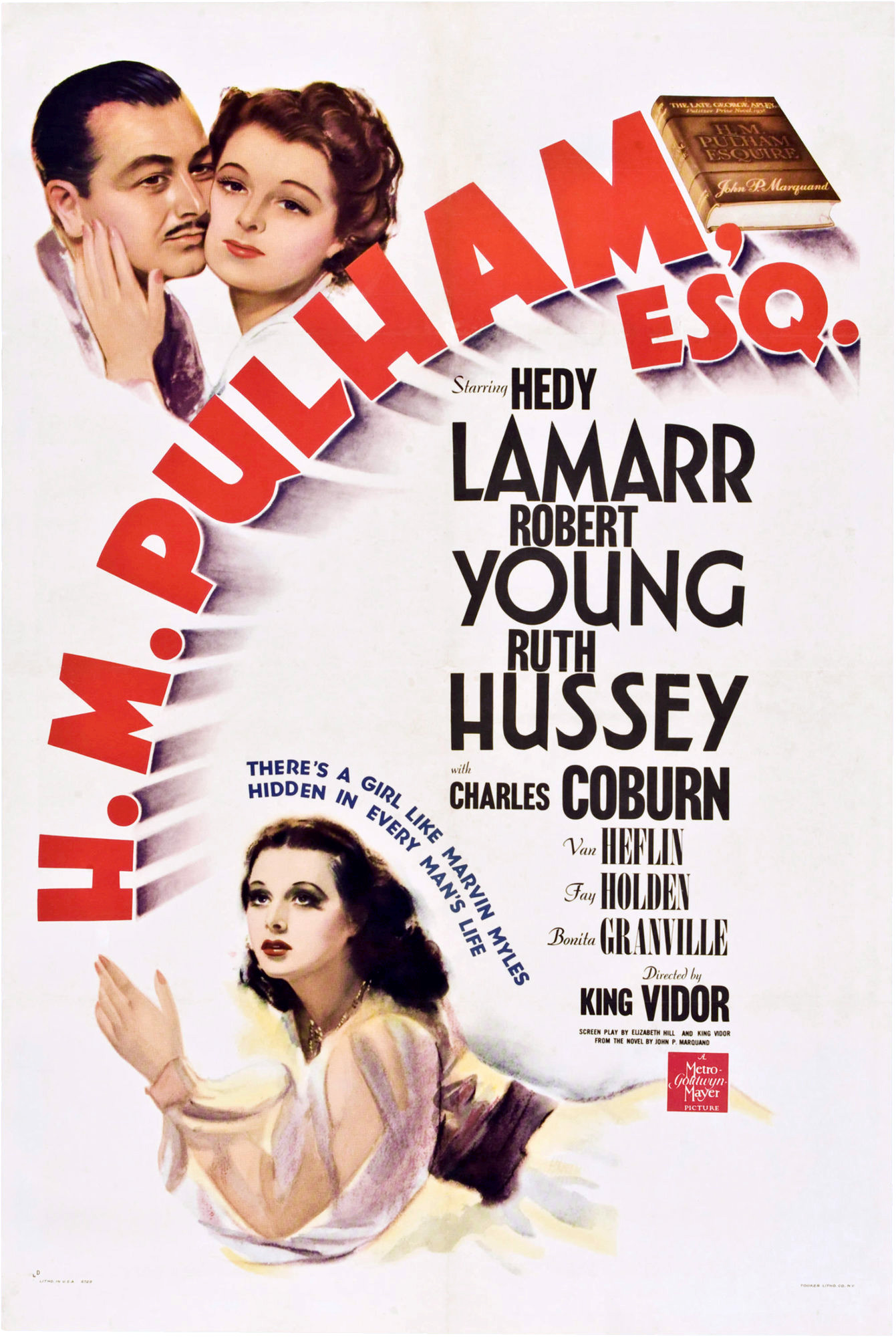 Poster for the 1941 film H M Pulham, Esq.. The item has no copyright markings on it as can be seen in the link above. At bottom left is Litho in USA and (looks like) 6729' At bottom right is Tooker Litho Co., NY-they printed the poster.